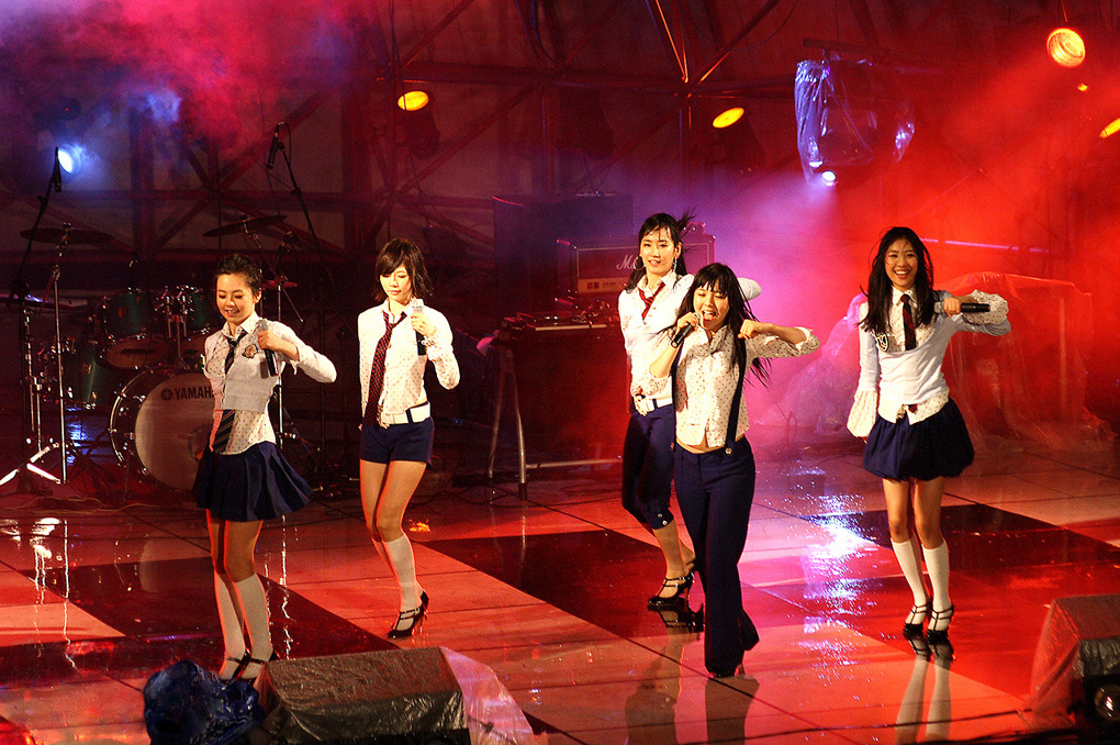 The Wonder Girls at the Daedongje, Hanyang University Festival.